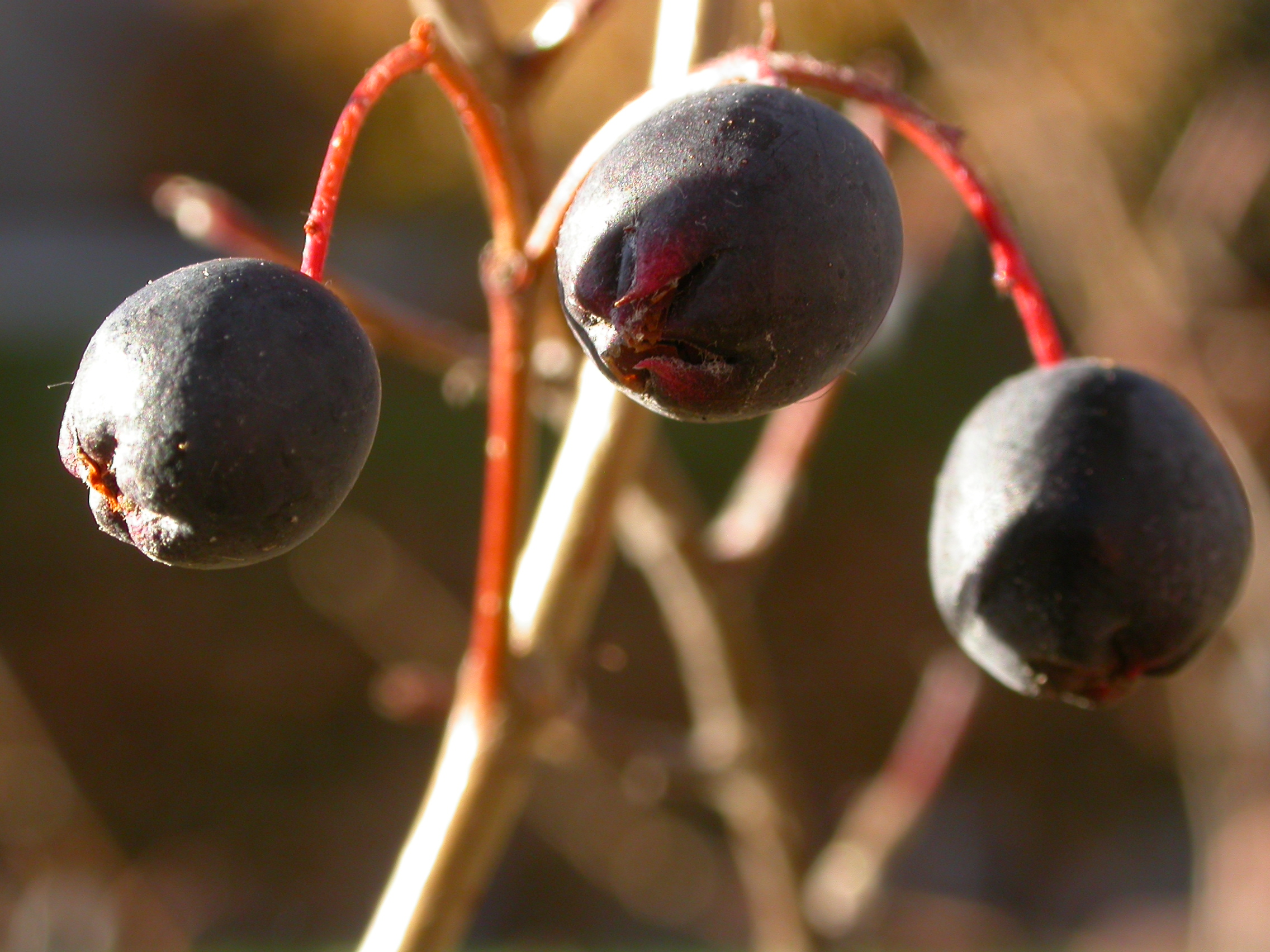 The fruit is a pome.